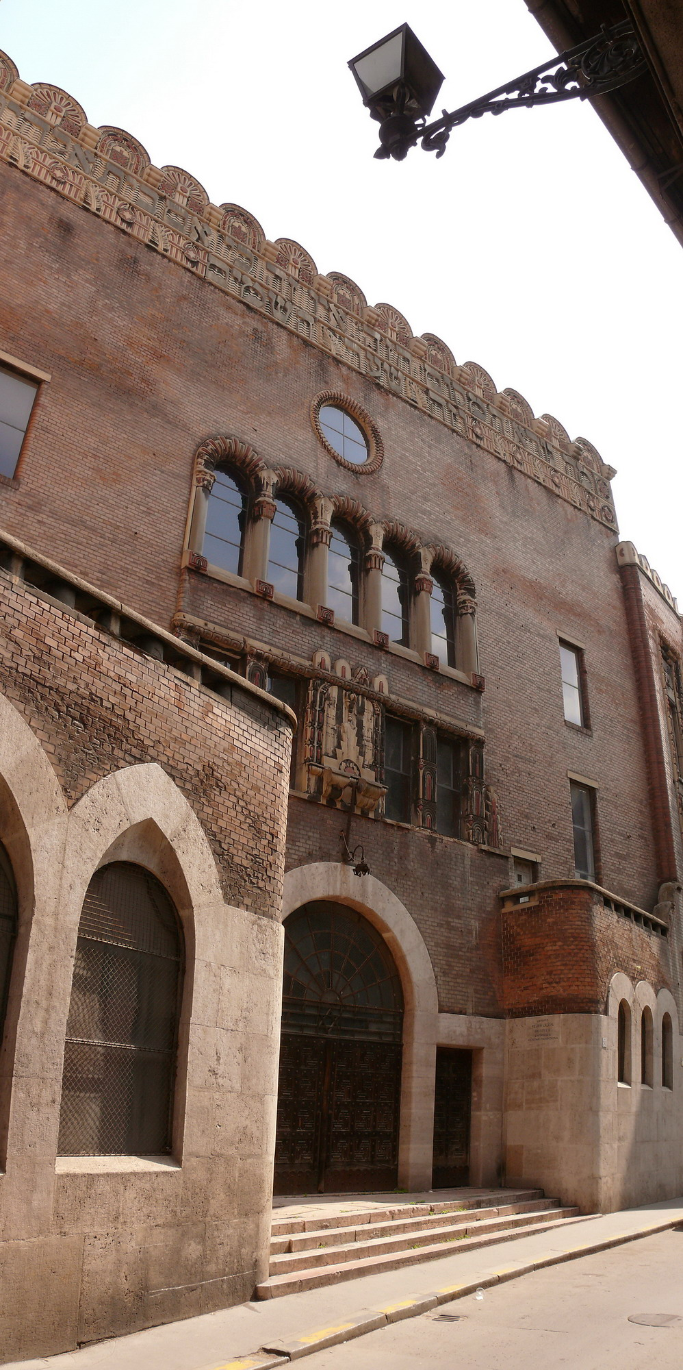 The facade of the Kazinczy Street Synagogue